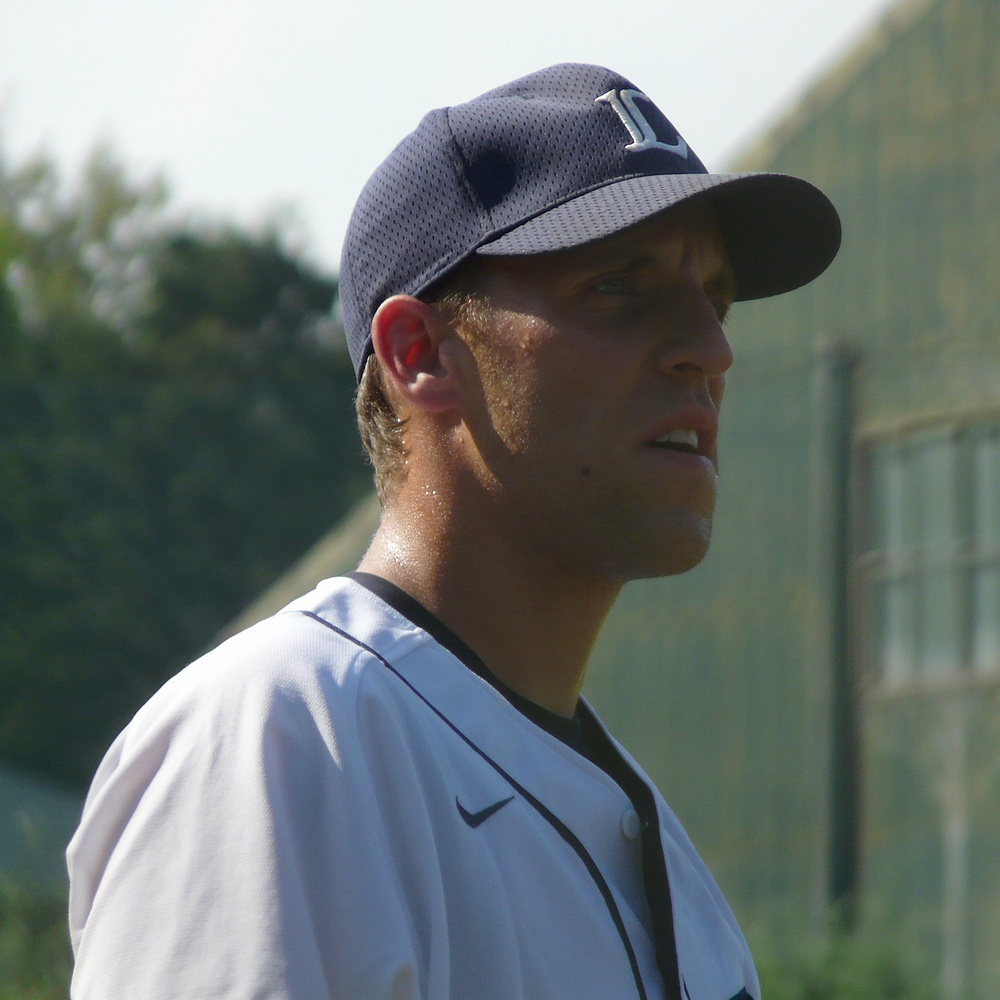 Alex Graman